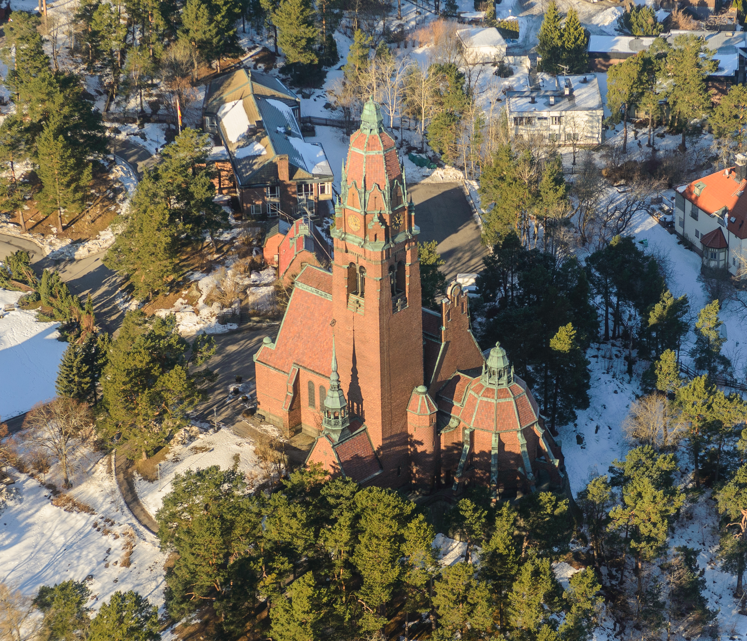 Uppenbarelsekyrkan (Revelation church) in Saltsjöbaden, Stockholm County. Built 1910-13, architect Ferdinand Boberg.